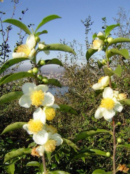 Tea plant in Lahijan, Iran